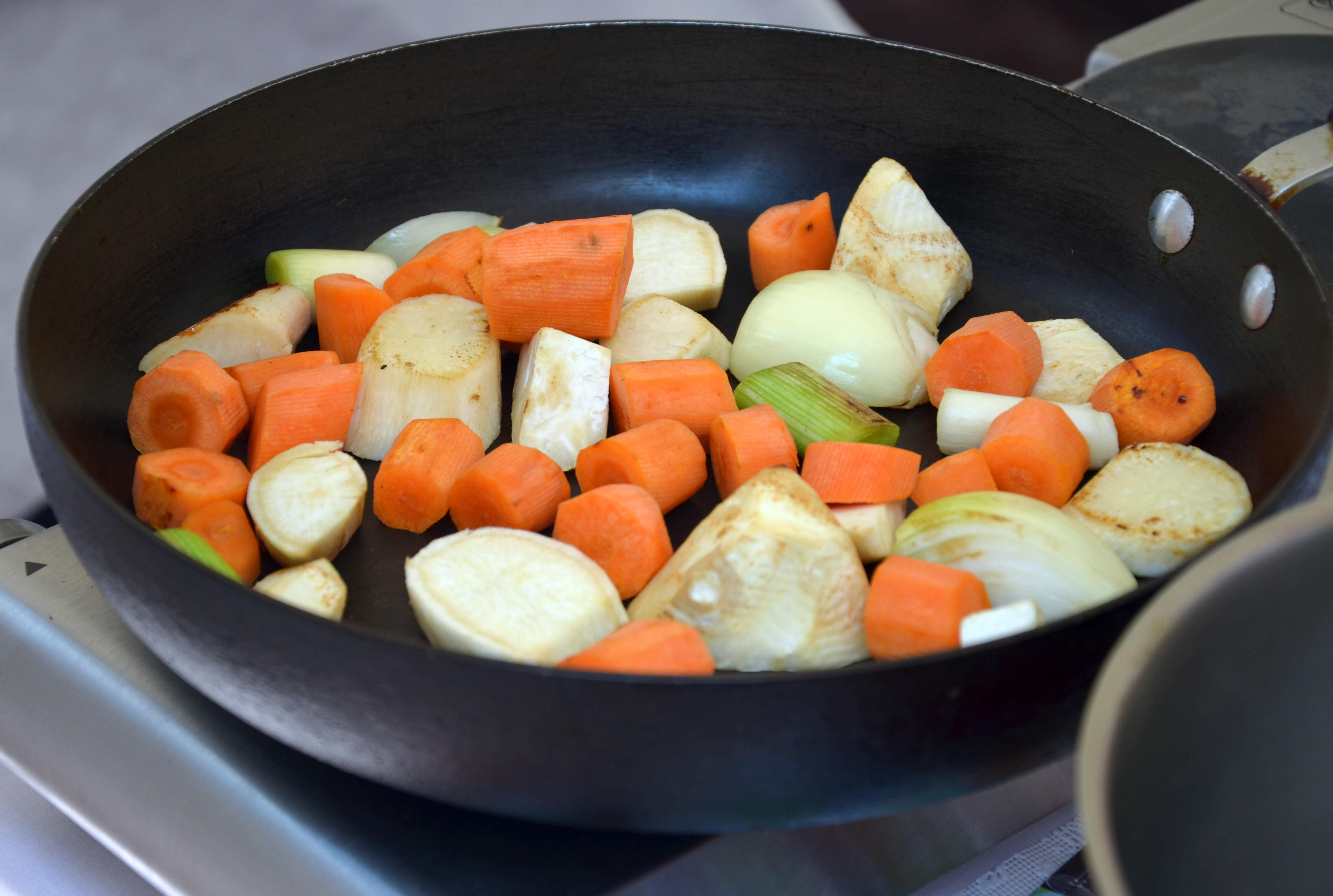 Cuisine of Silesia